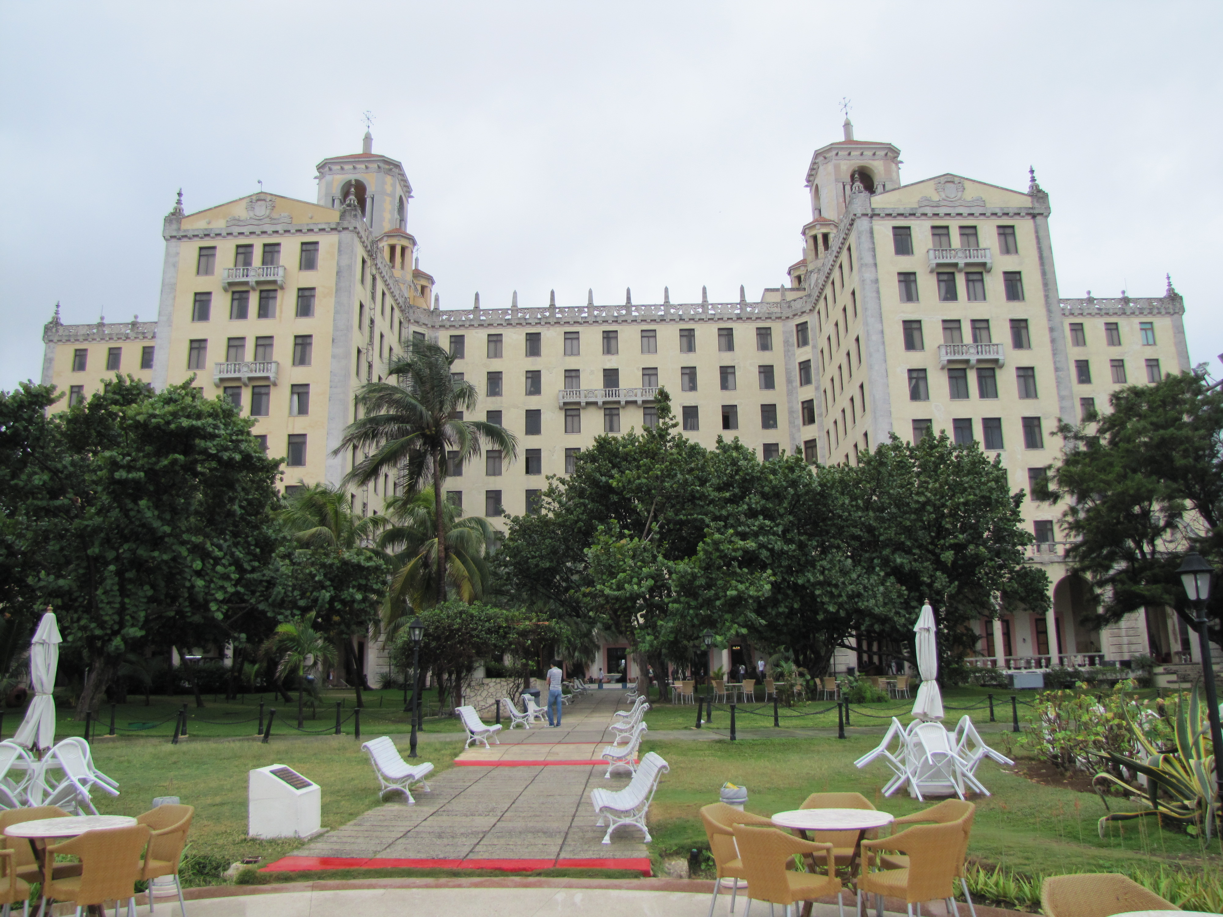 Hotel Nacional de Cuba